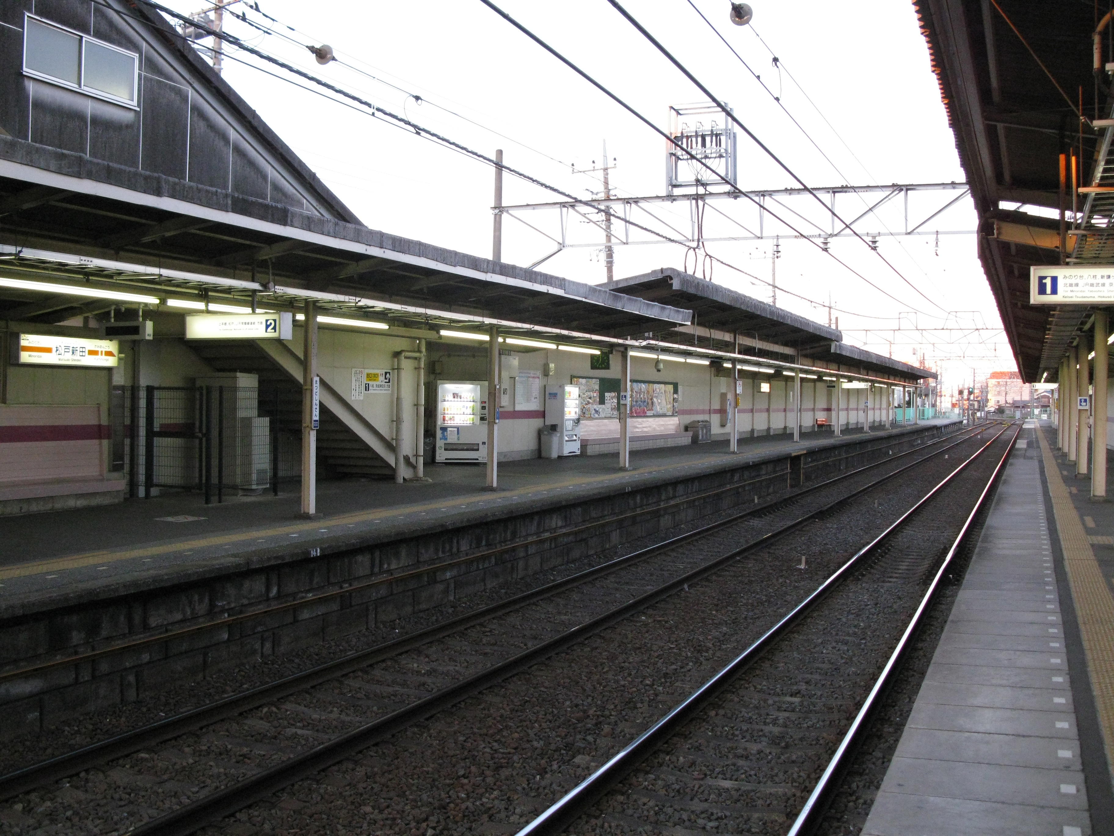 Matsudo-Shinden Station platform (Shin-Keisei Electric Railway Shin-Keisei Line)